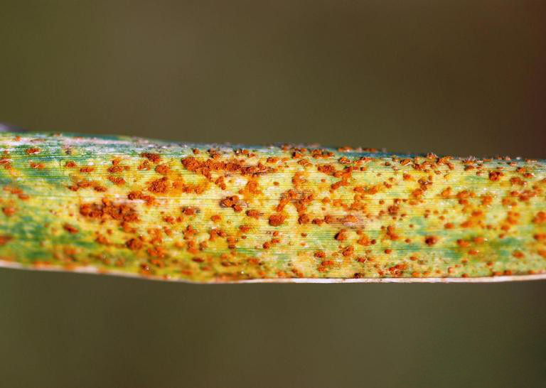 Rust (Symptoms) Puccinia hordei G.H. Otth Image location: Louisiana, United States